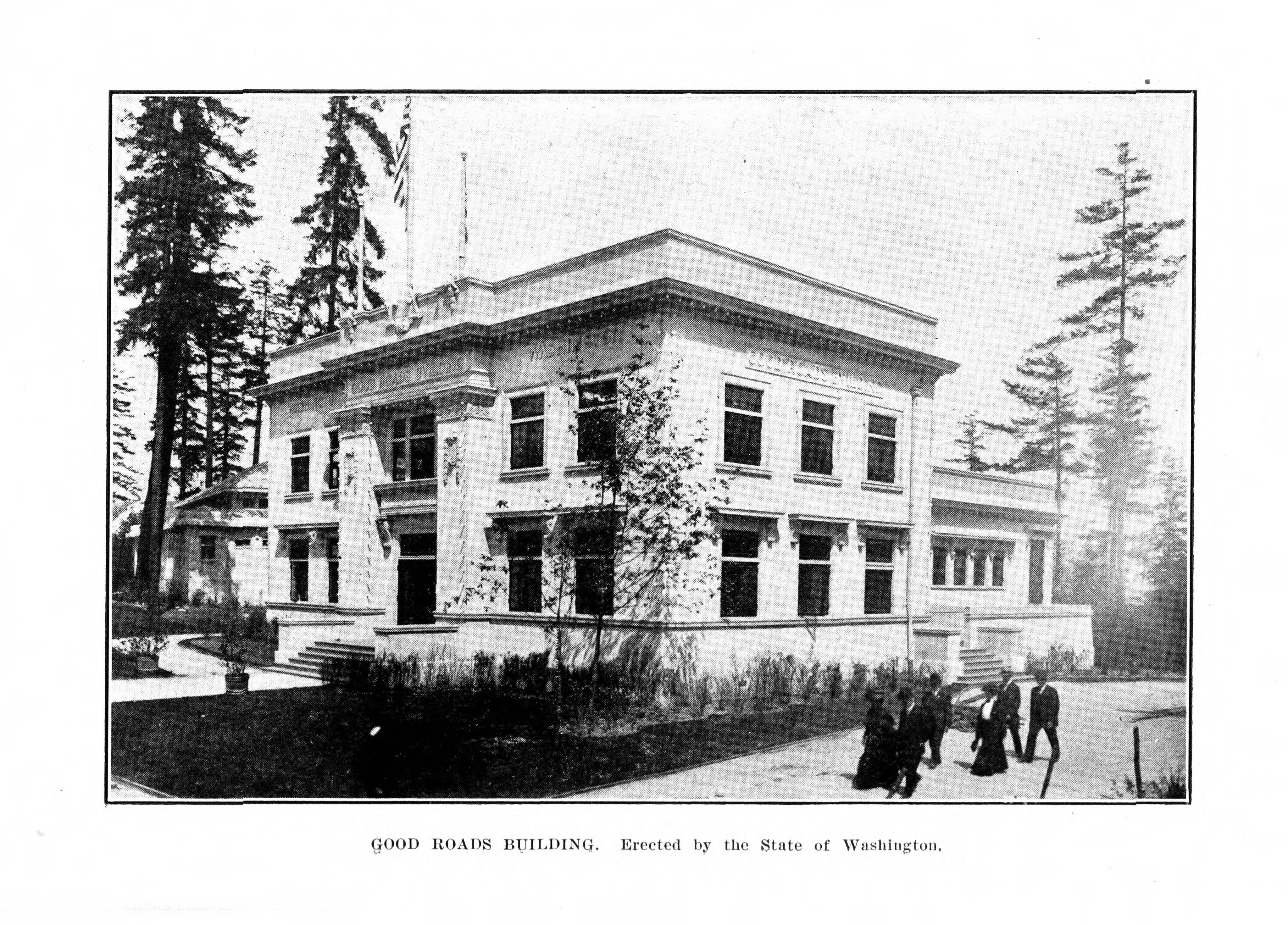 From the materials for the Alaska-Yukon-Pacific Exposition of 1909, held in Seattle.